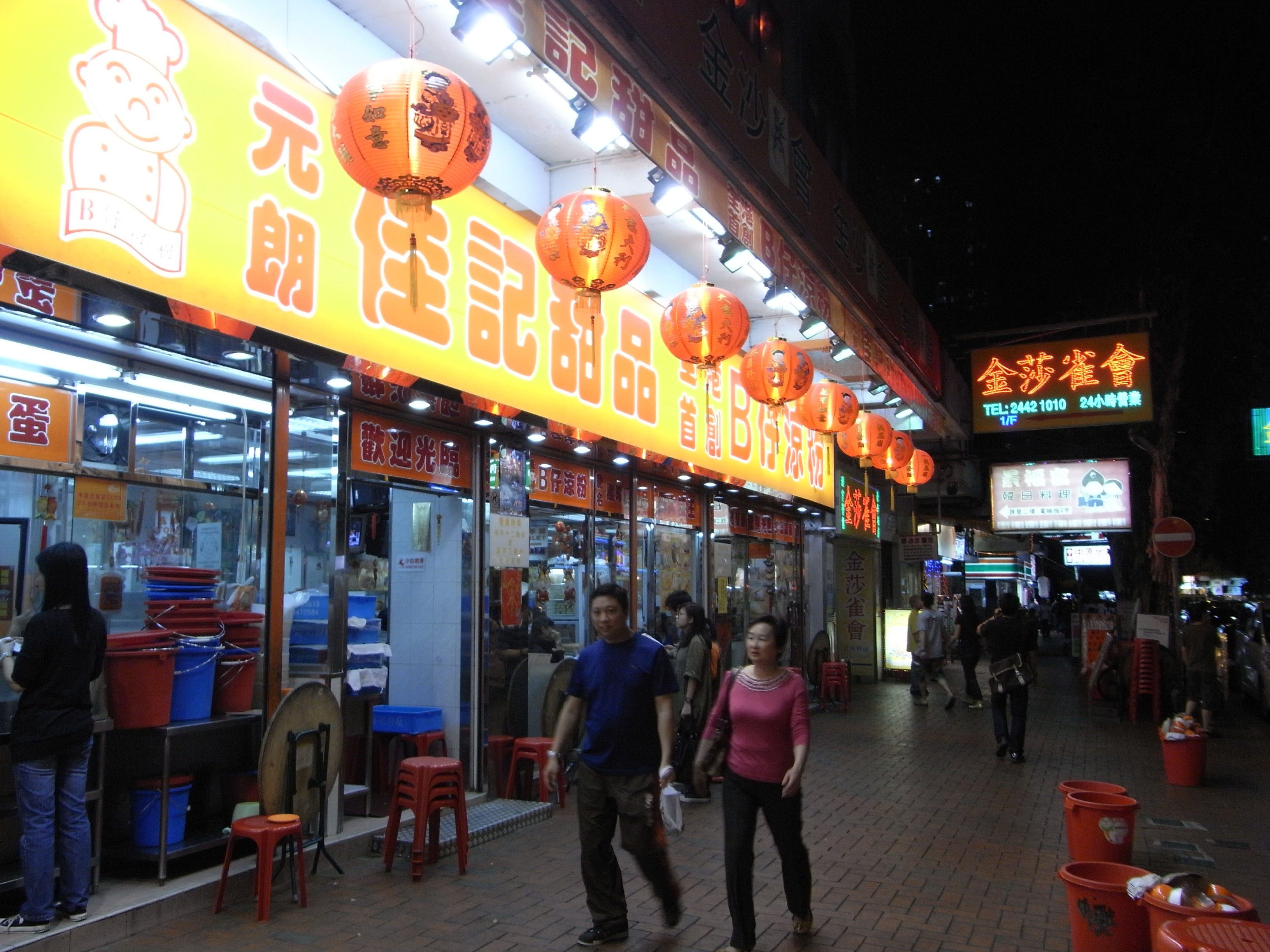 元朗 又新街 B仔涼粉 夜景